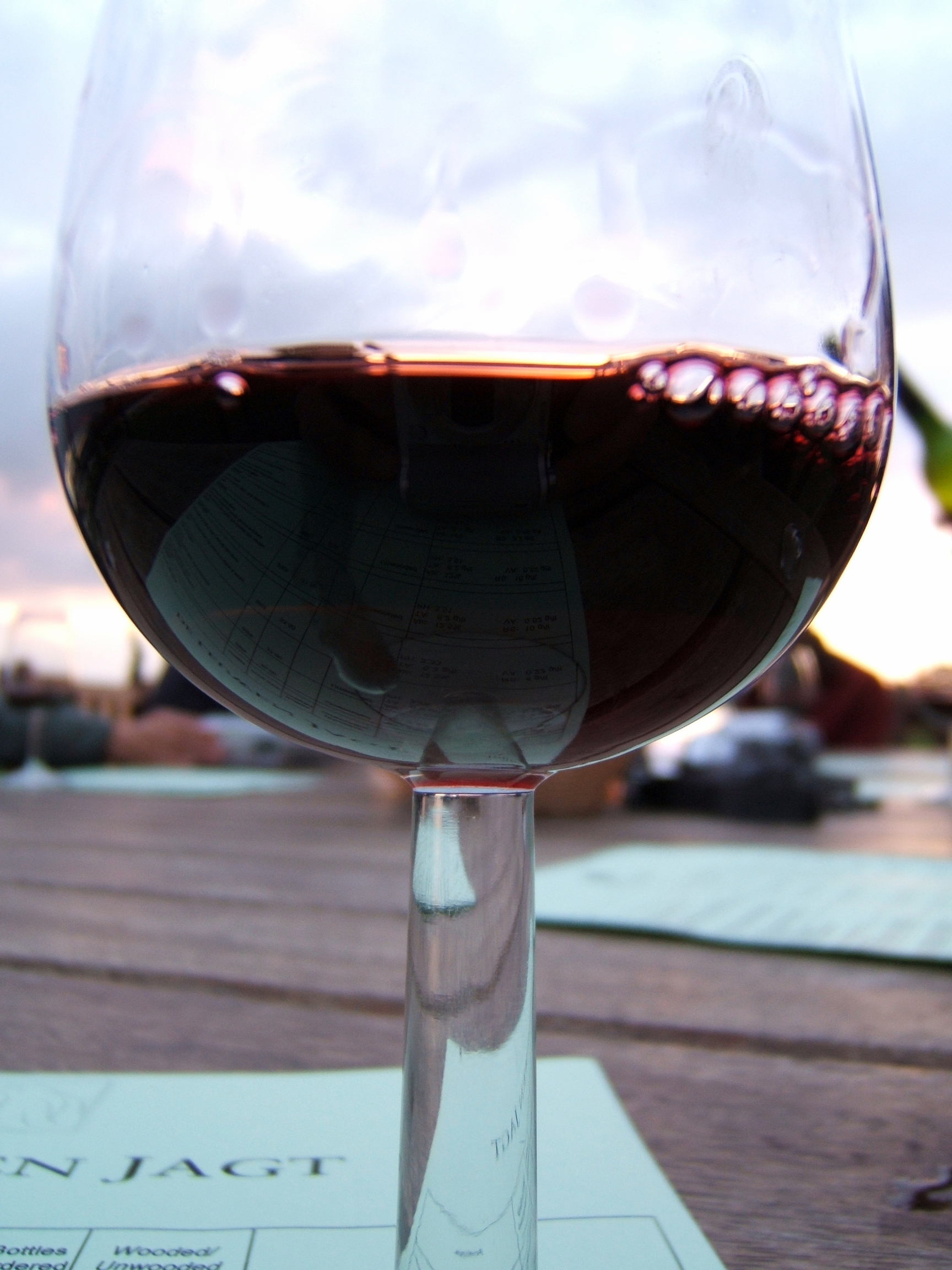 A glass of red South African wine